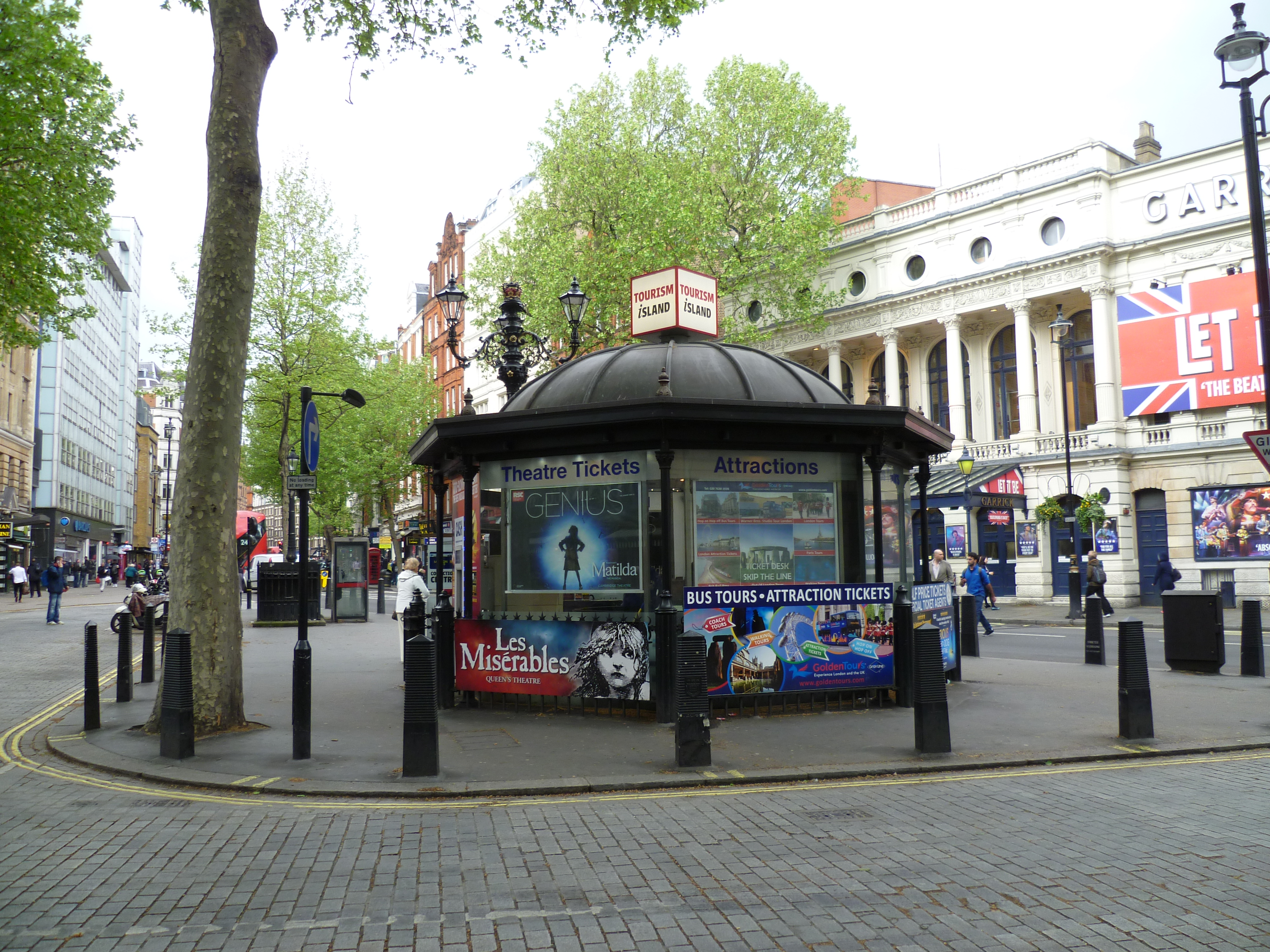 Ticket sales, Charing Cross Road, London.